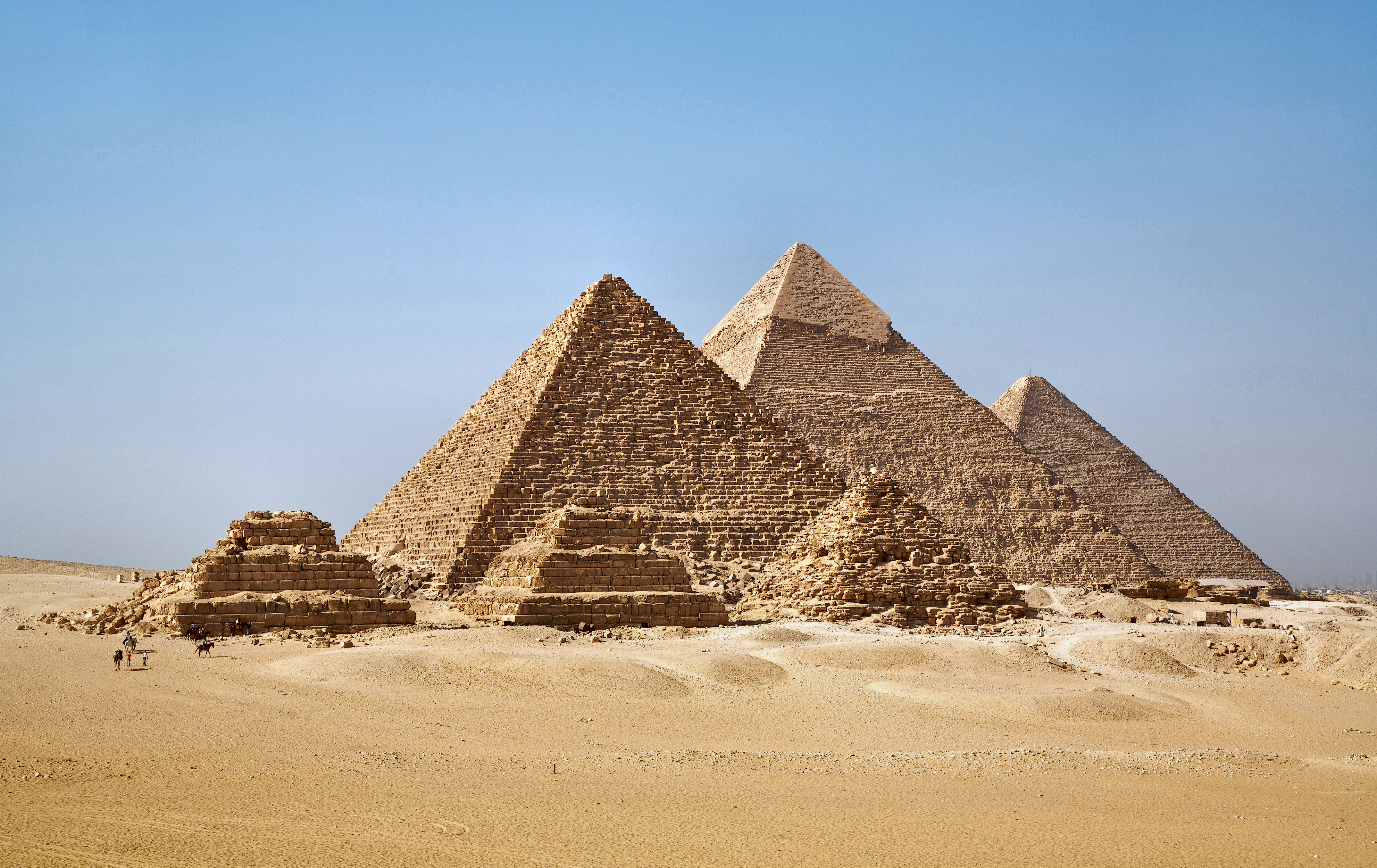 All Gizah Pyramids in one shot.